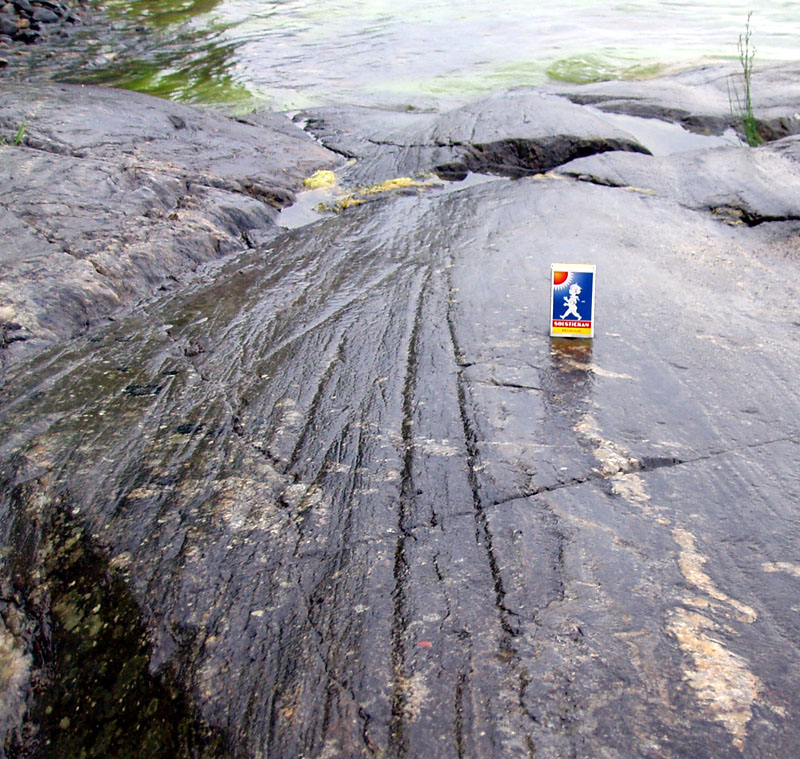 Glacial striation on a piece of rock